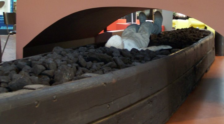 Author: Martin Cordon, Source: Own Picture. Martin Cordon 21:31, 21 March 2007 (UTC)